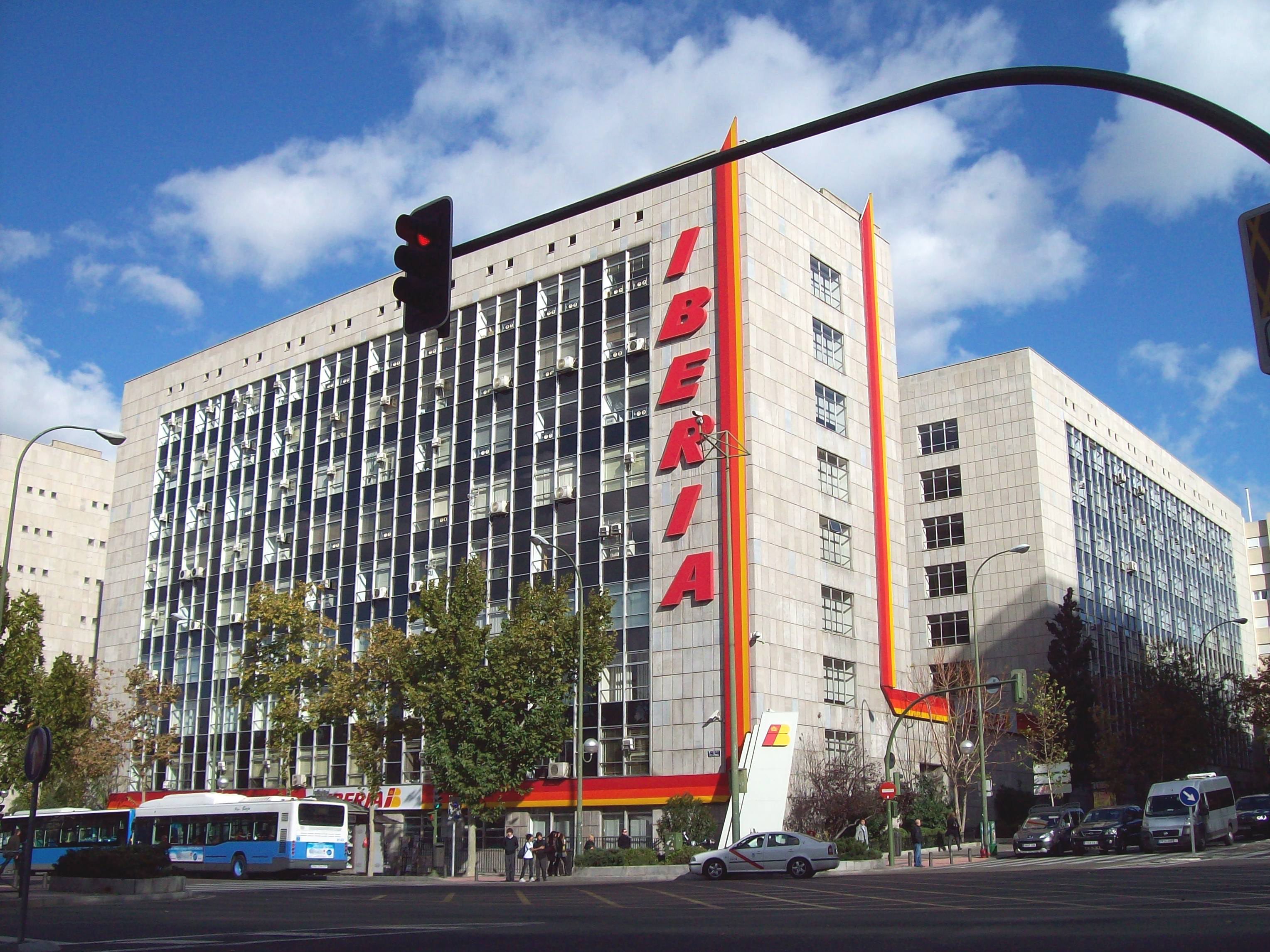 View of SEPI headquarters in Madrid (Spain).